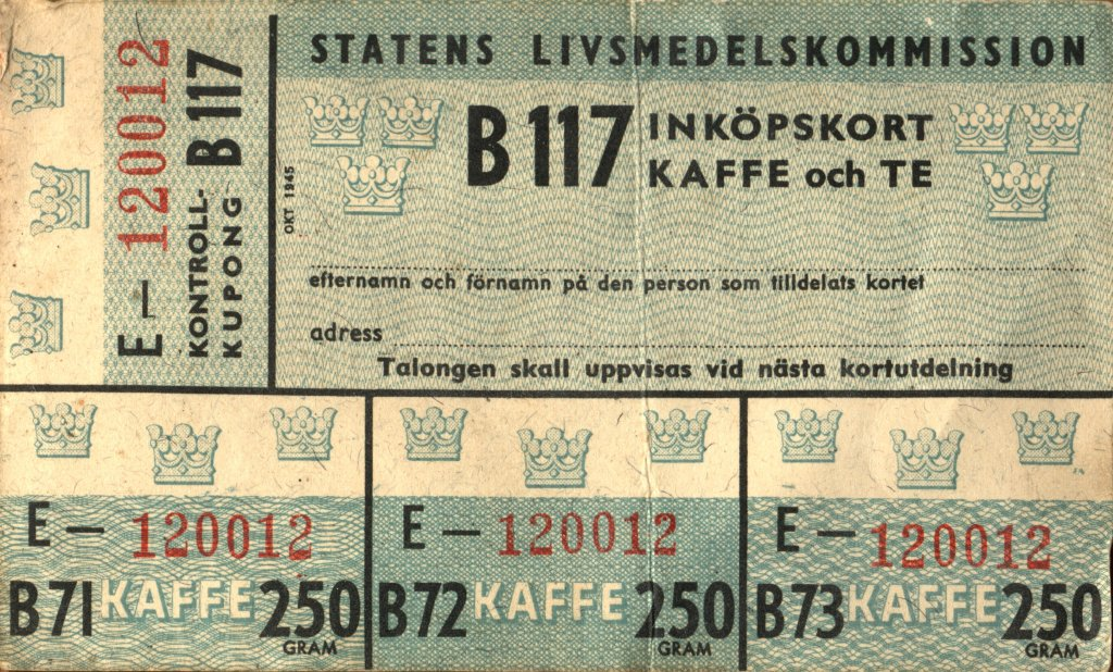 Ration stamp for coffe and tea made by the Swedish food authorities during World War II